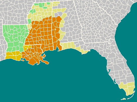 This image shows FEMA disaster declarations in the aftermath of Hurricane Katrina, as a focused regional map 470x350px, with the 4 states: Florida, Alabama, Mississippi, and Louisiana. Shading: 1. the dark shade of orange represents counties eligible for full Individual and Public Assistance, 2. the intermediate shade of orange represents counties eligible for Individual and Public Assistance (Categories A and B only), 3. the light yellow-orange represents counties eligible for full Public Assistance, and 4. green represents counties eligible for Public Assistance (Category B only).